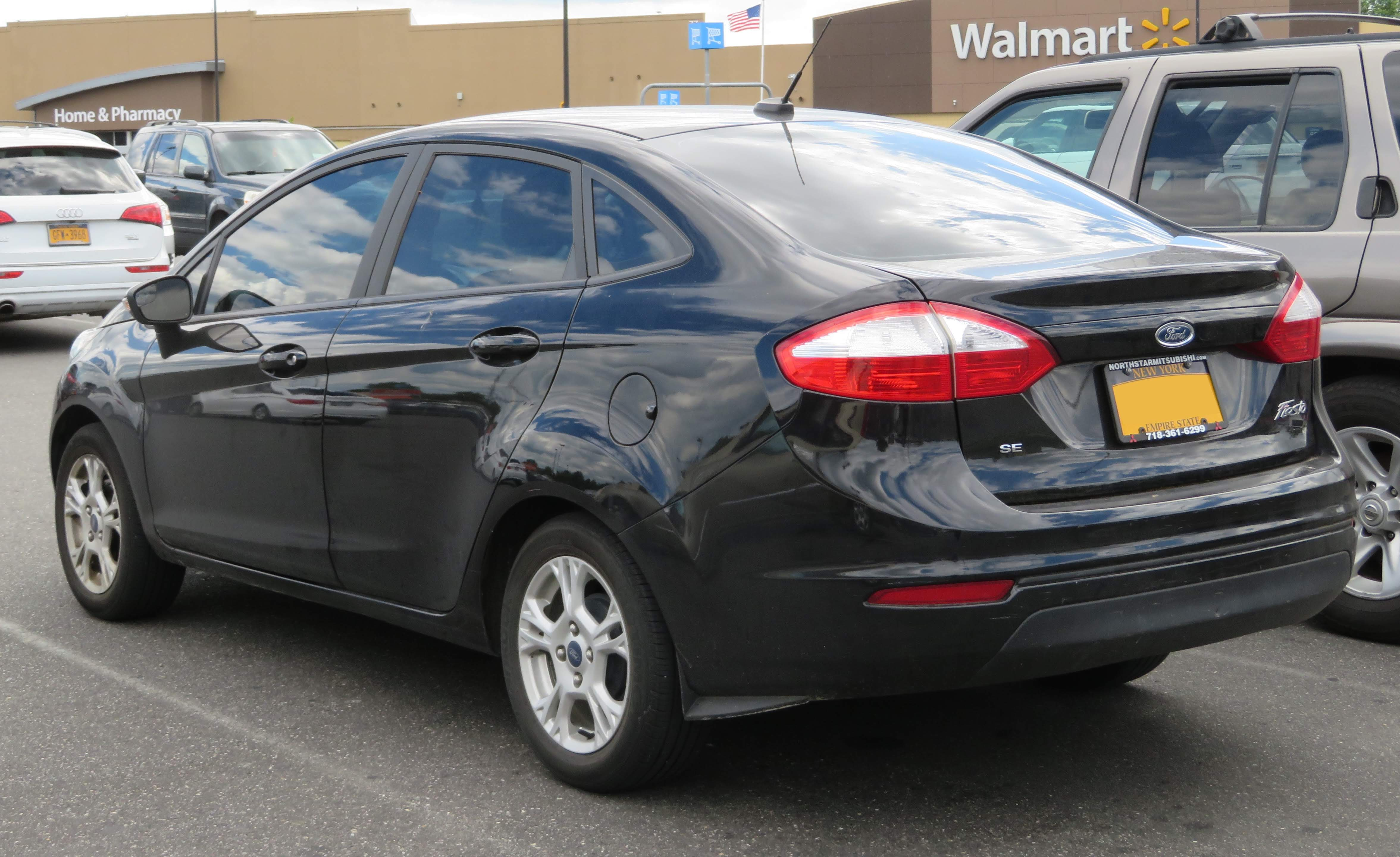 Photographed in Long Island, New York